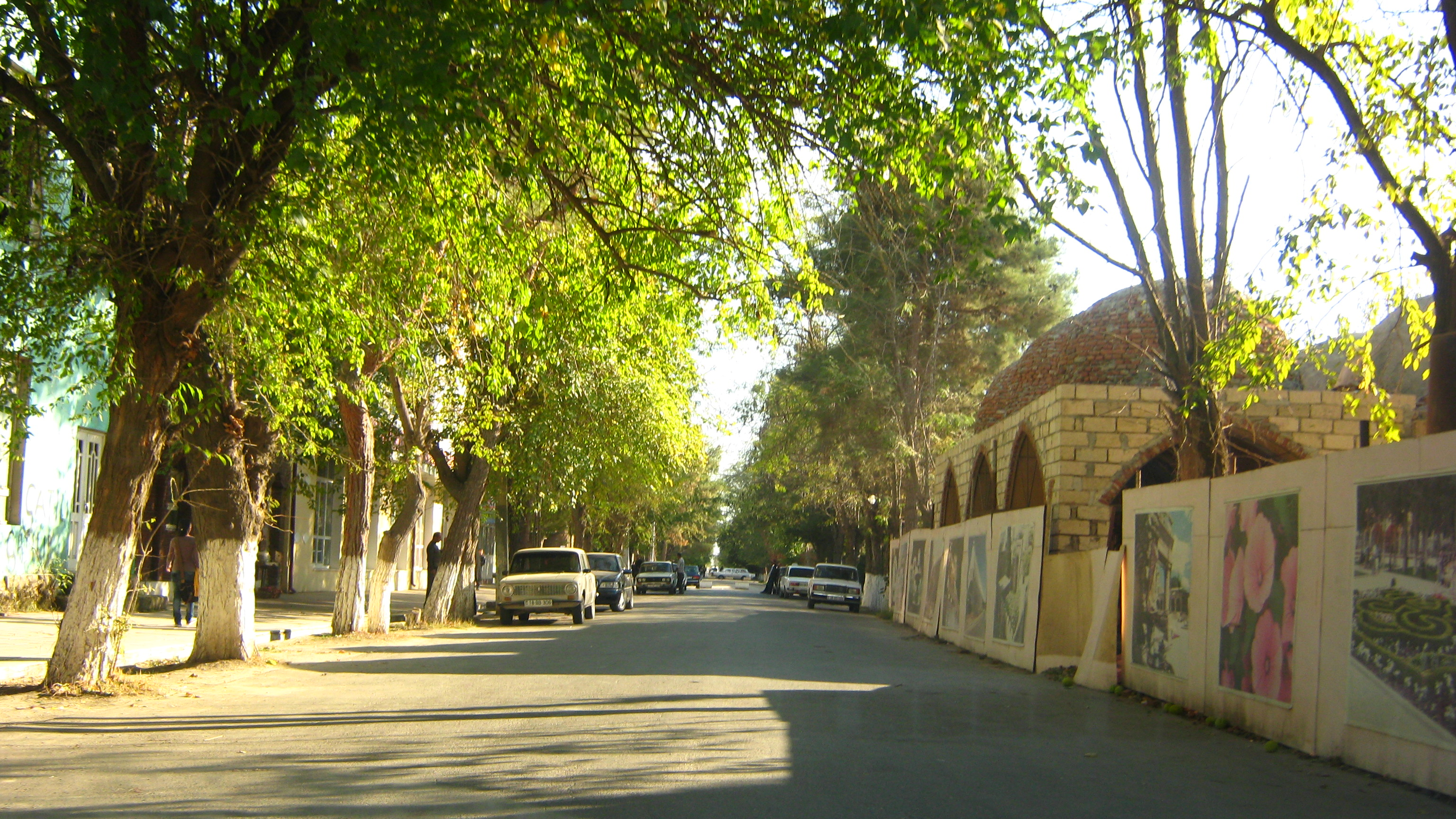 Bala Kur